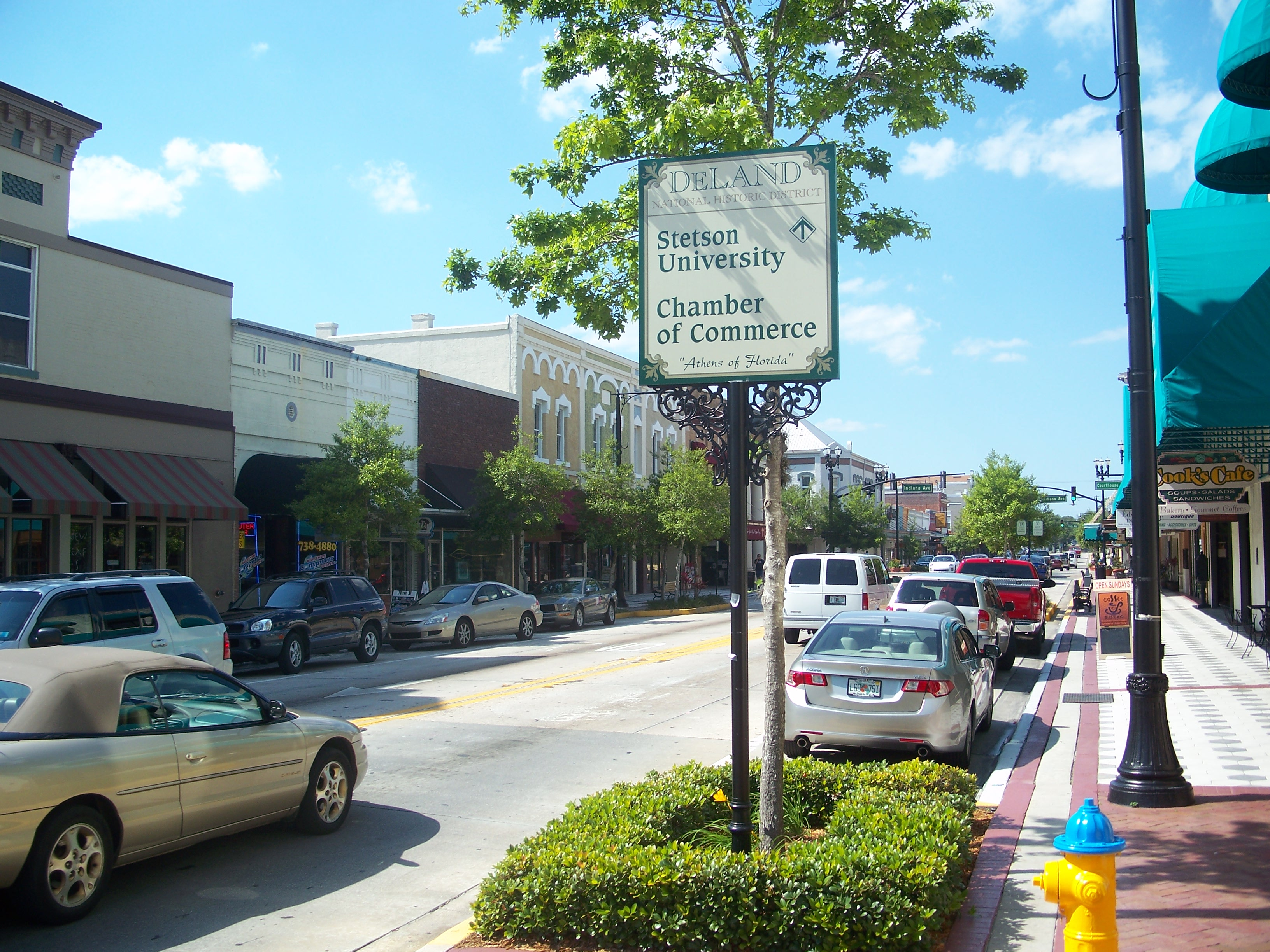 Deland, Florida: Downtown DeLand Historic District: Looking south along US 17/92